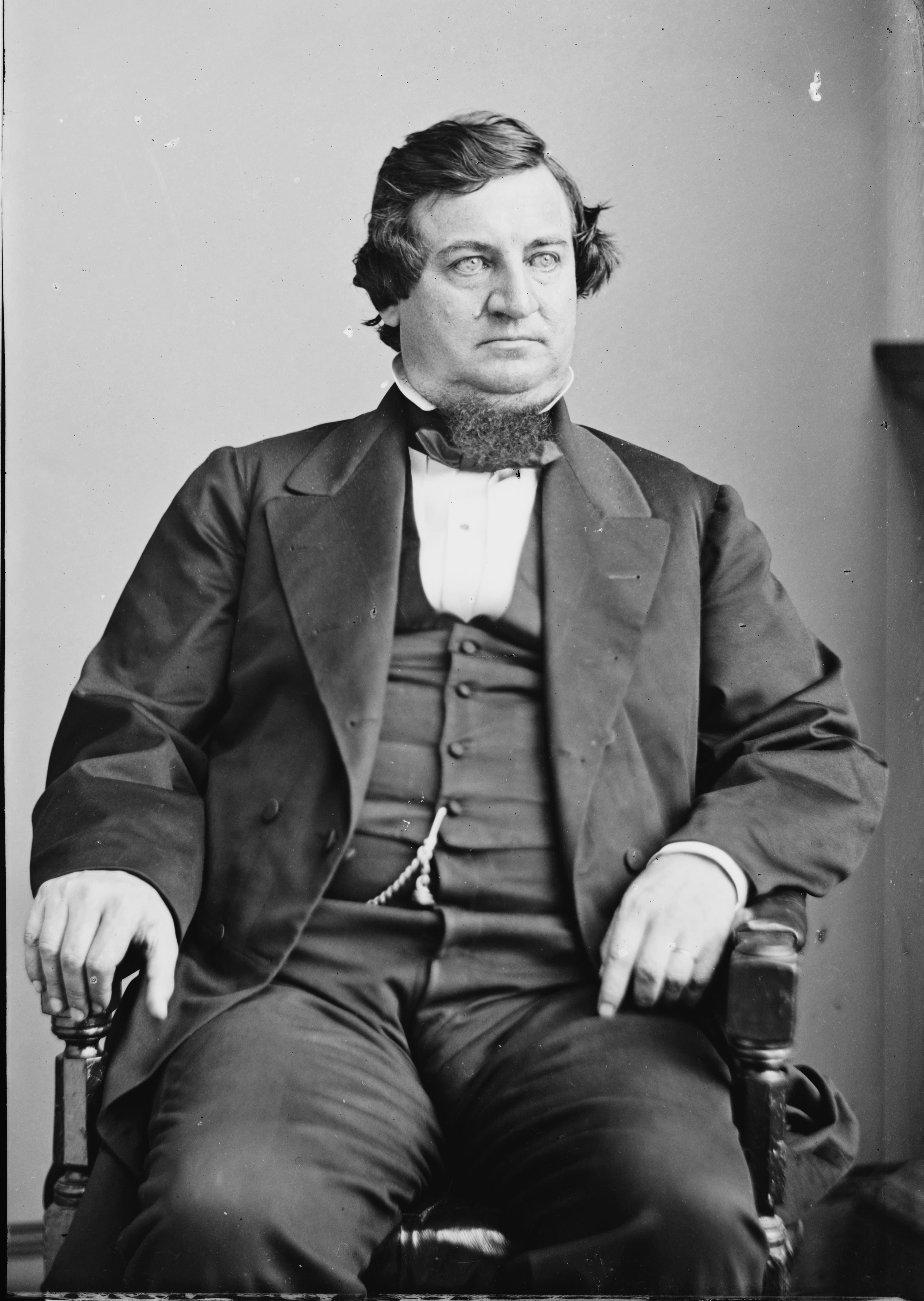 Lyman Tremain. Library of Congress description: "Hon. Lyman Tremain of N.Y."